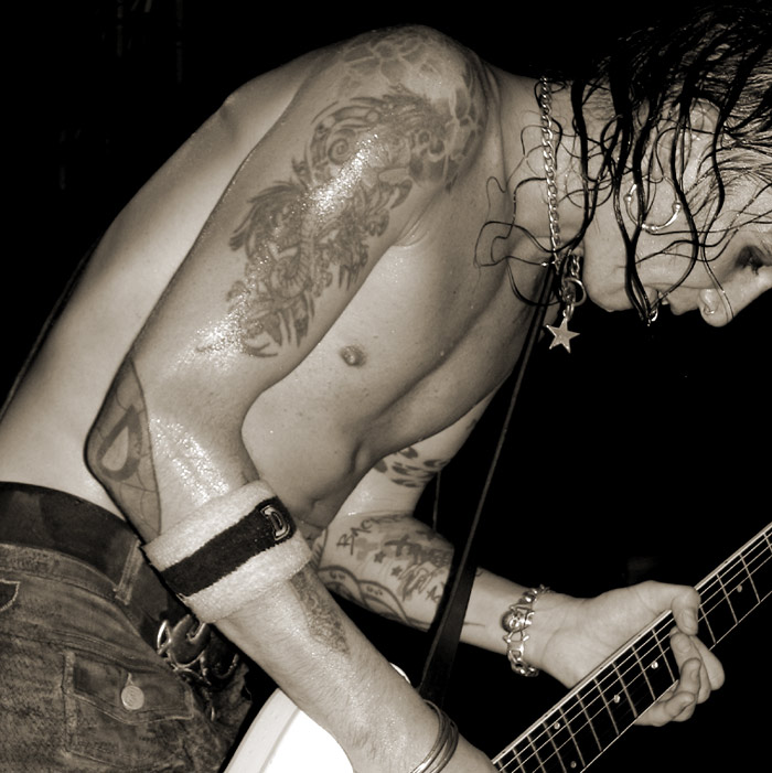 Dregen in Backyard Babies at Hiroshima mon amour, 24/05/06, Torino (Italy)